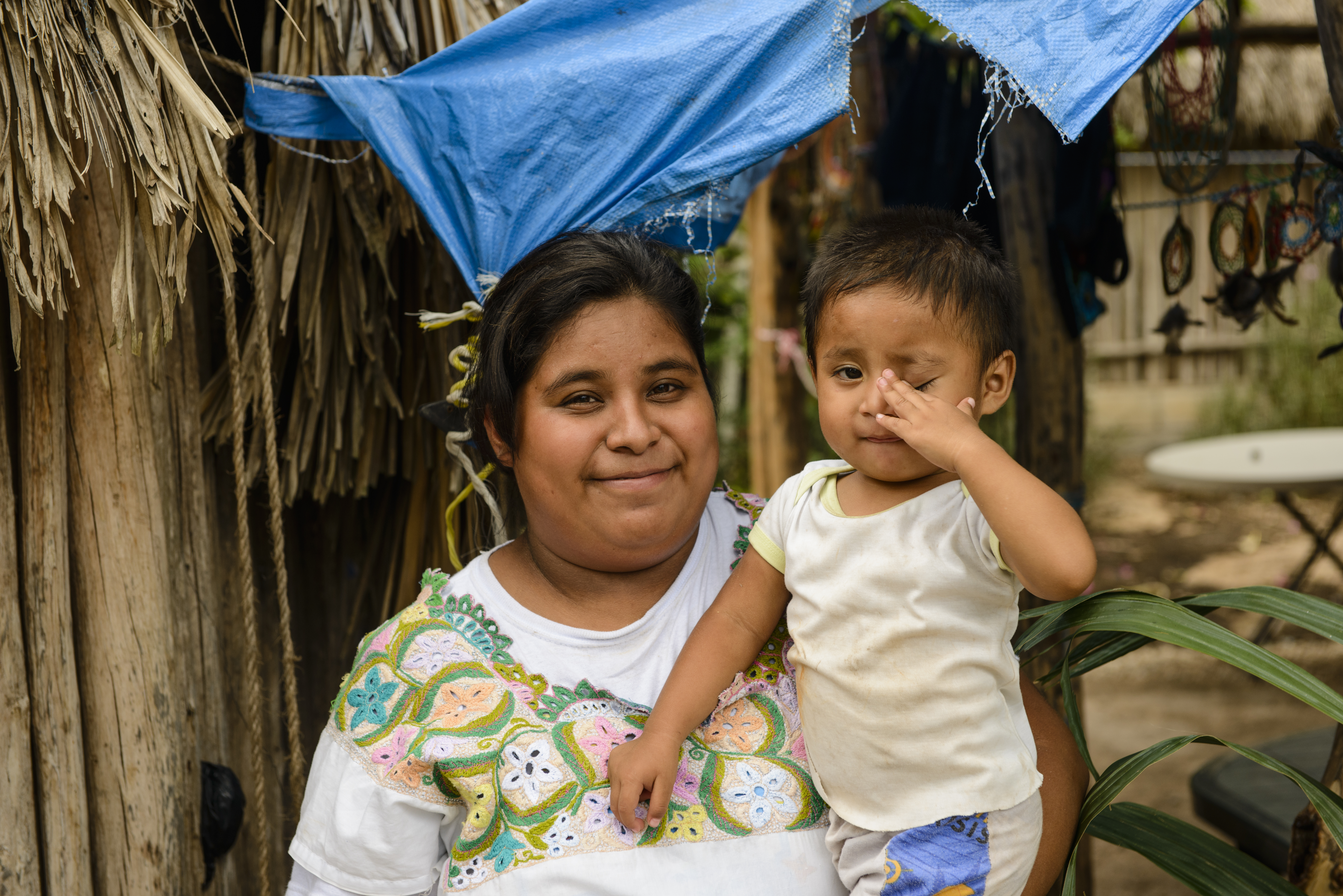 Mayan descendants near Coba, Quintana Roo, Mexico.